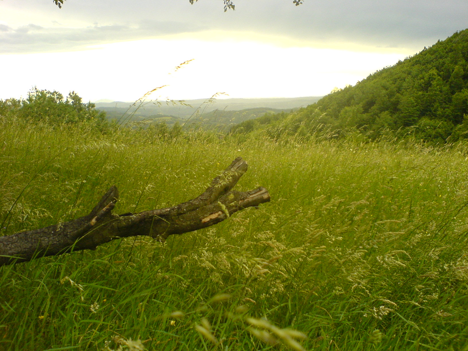 Detail on Rudnik mountain.